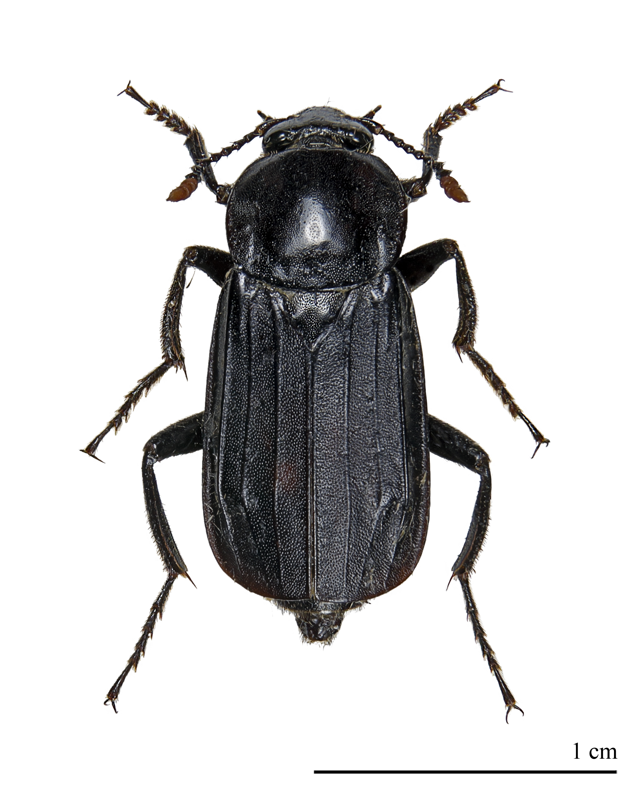 Dorsal side Locality:Lasparets, Sainte-Croix-Volvestre, Ariège, Midi-Pyrénées, France